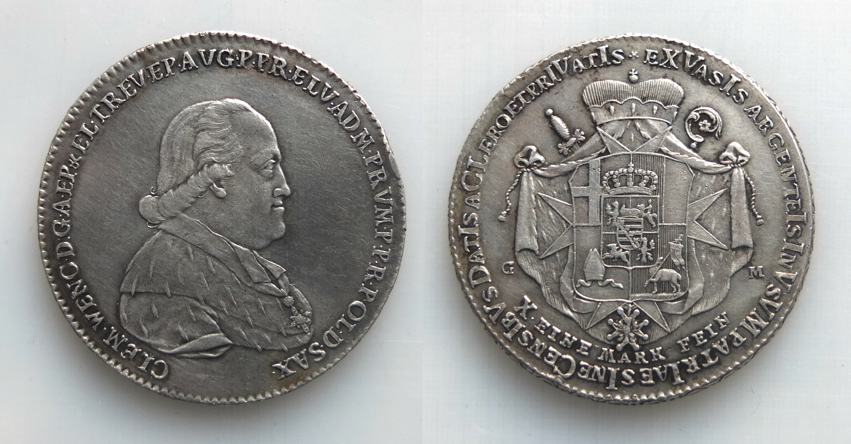 Clemens Wenceslaus of Saxony (1739-1812), Archbishop and Prince-Elector of Trier, Kontributionstaler, coined 1794 in Trier.